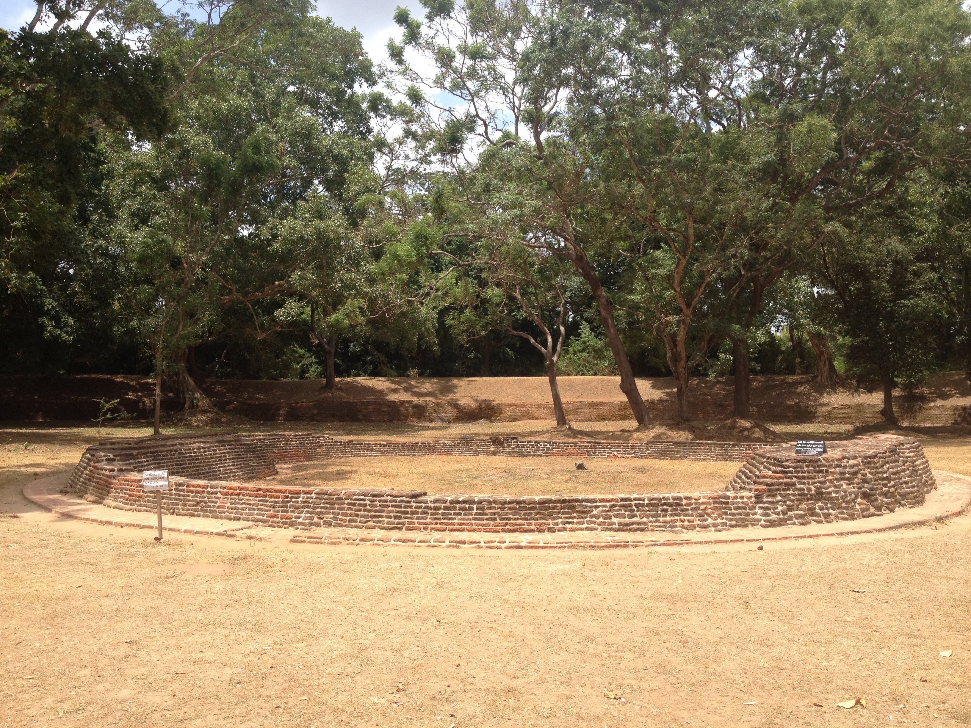 Chakravala Kotte ruins